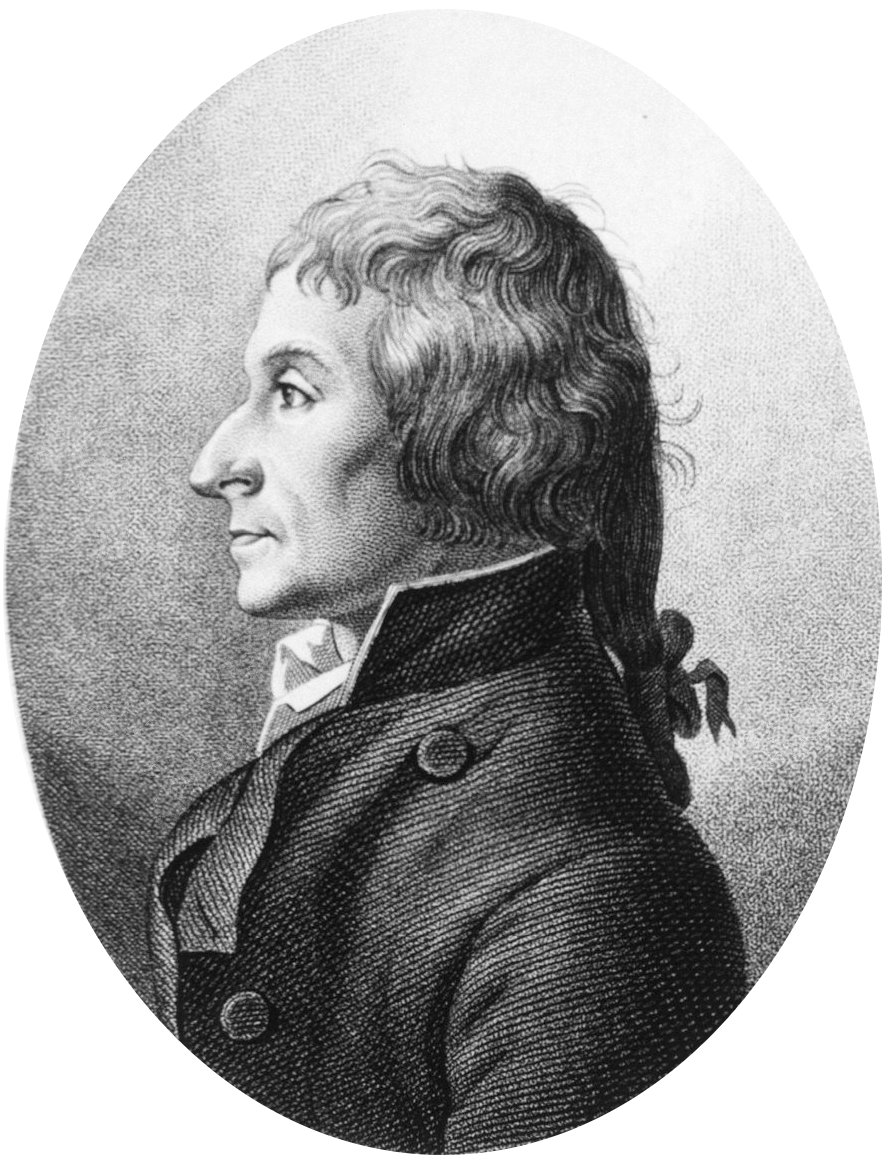 French chemist Joseph Louis Proust (1754-1826)